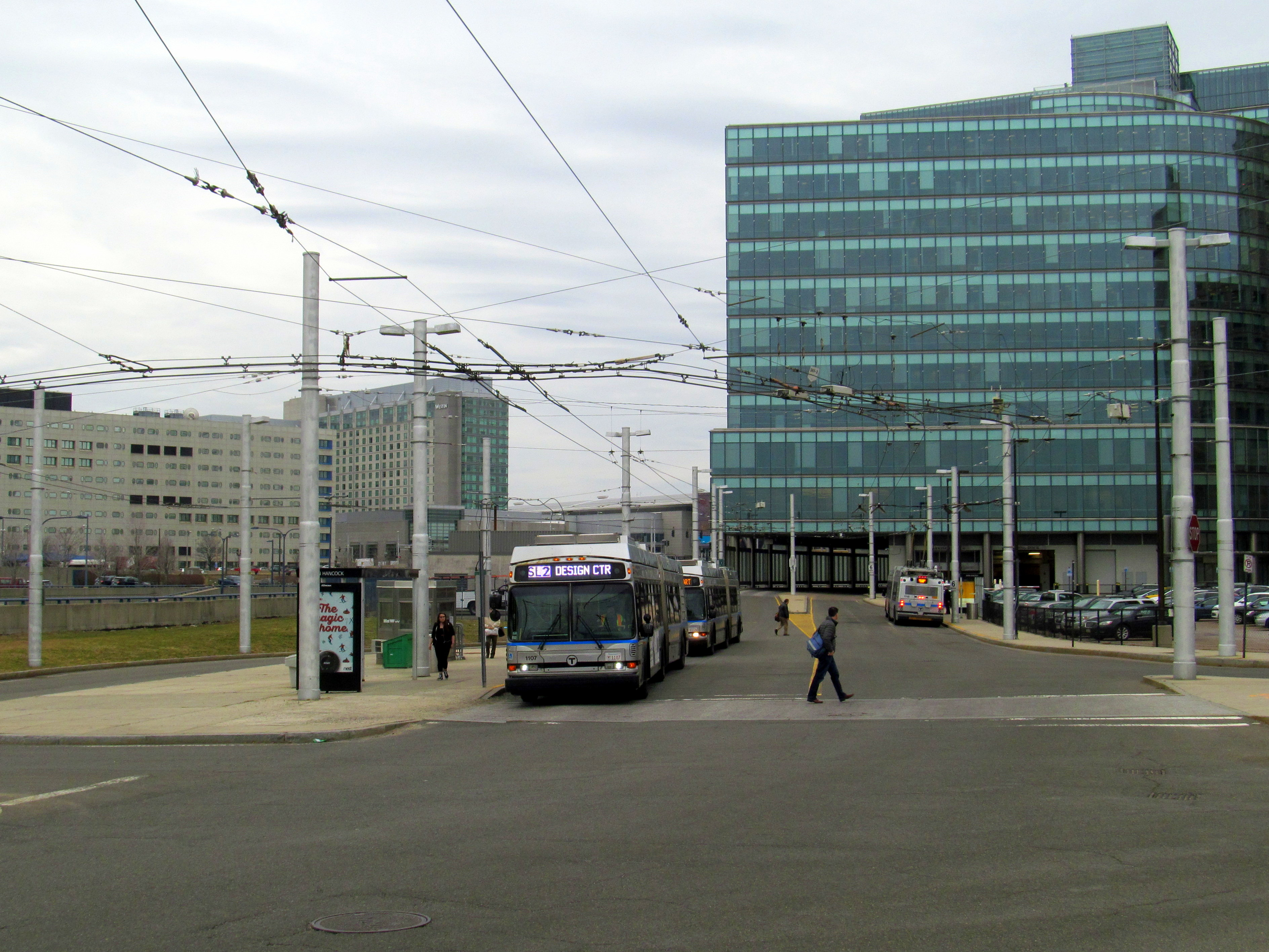 Silver Line Way station in March 2016